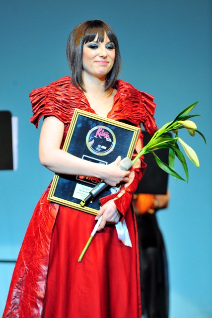 Aranylemez a Magdaléna Rúzsa.